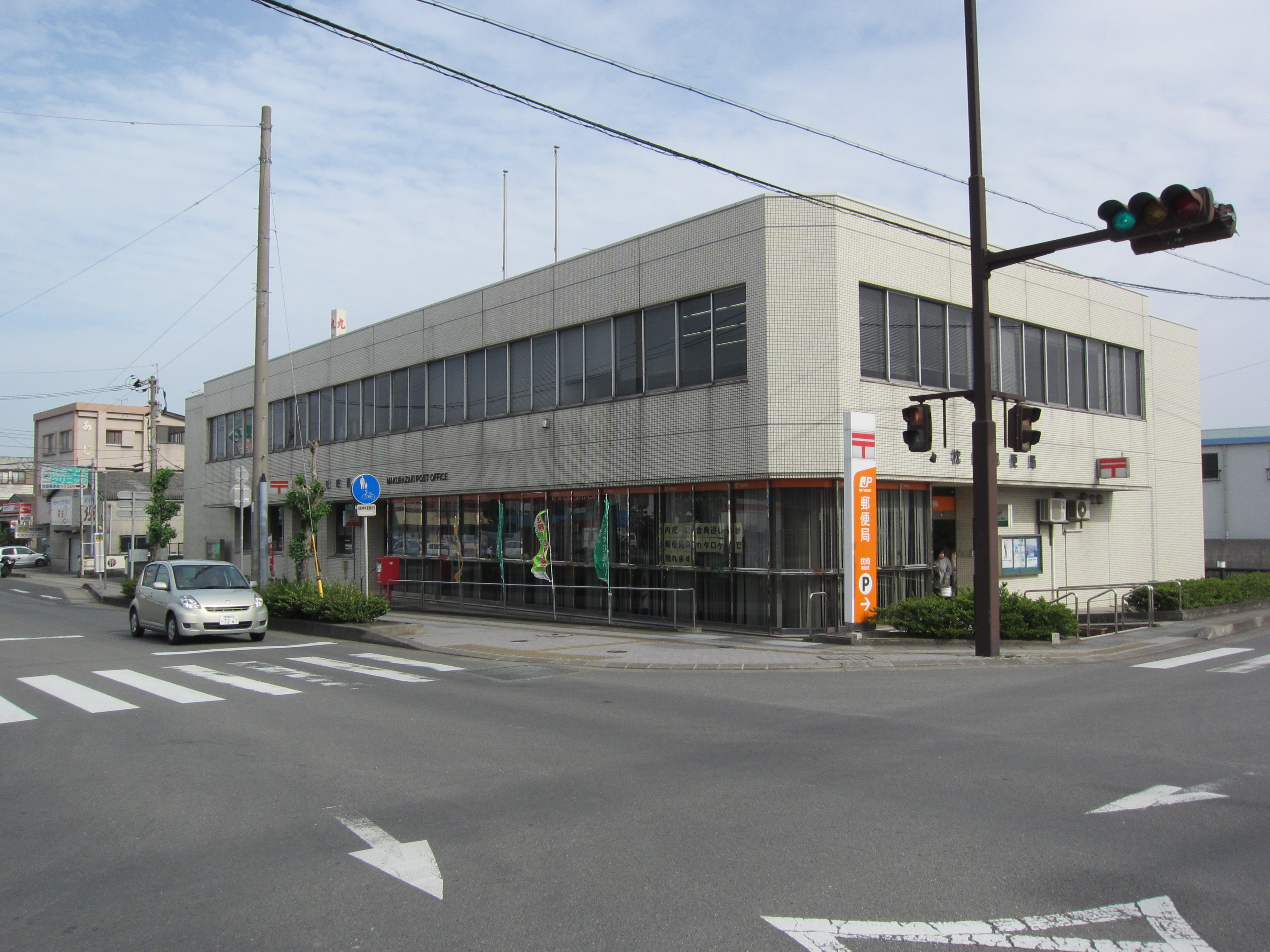 Kagoshima Makurazaki Postoffice